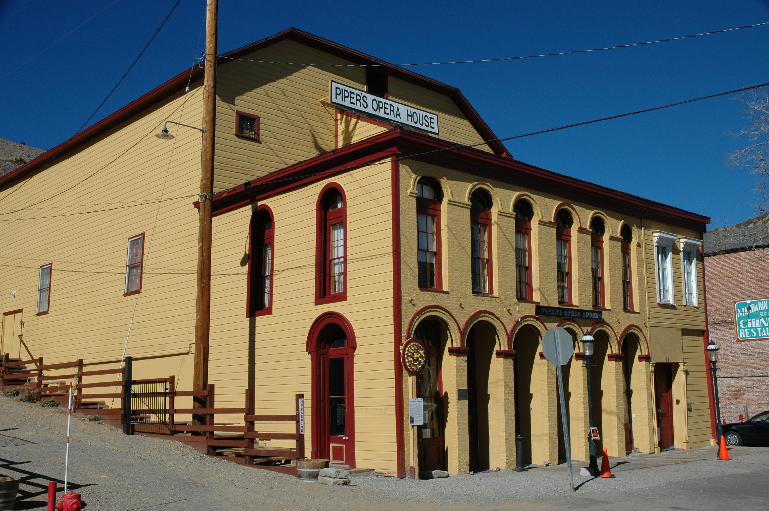 Virgina City, Nevada-Pipers Opera House-1885